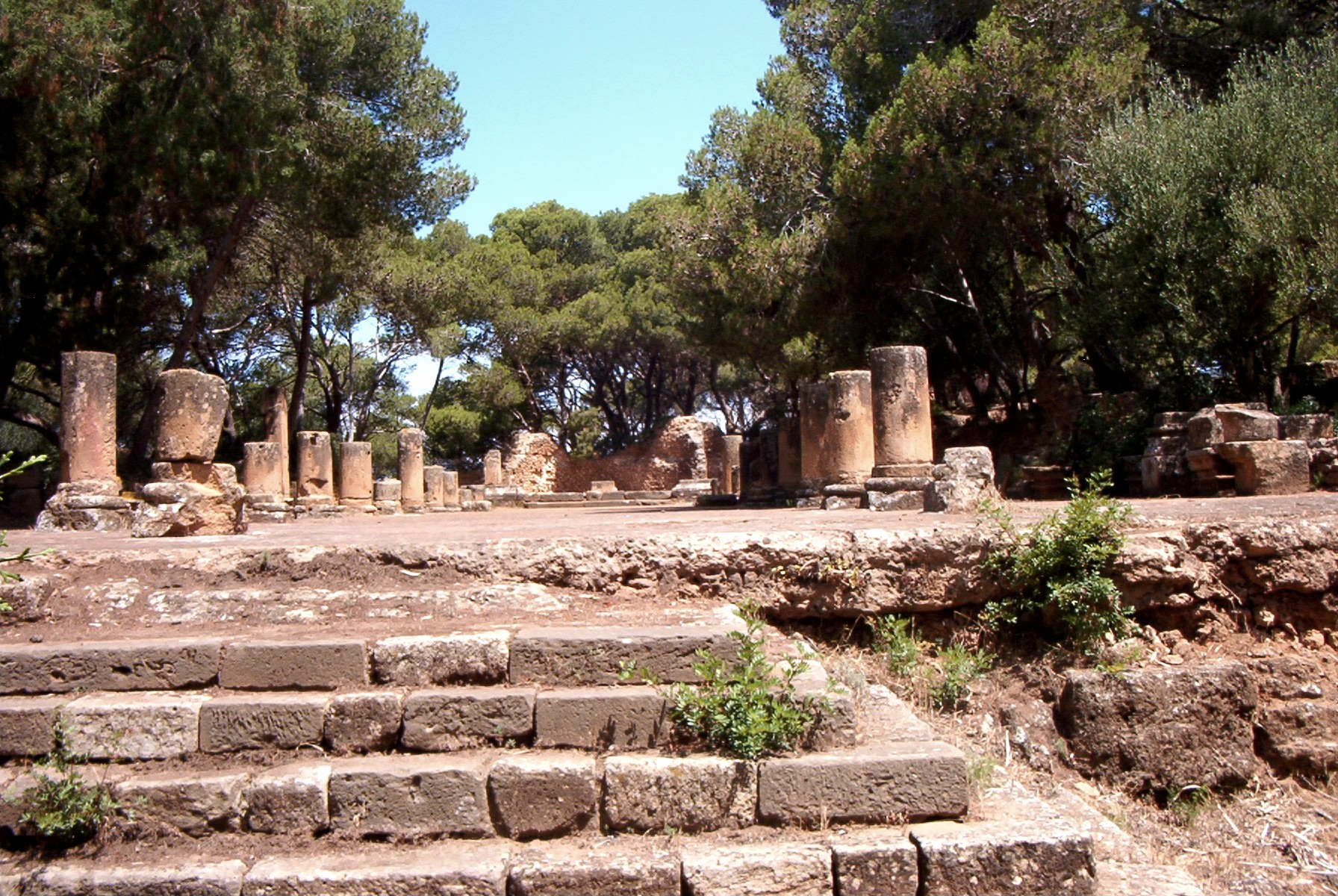 Ruins of the Byzantine era Basilica of St. Crispinus — in Tipaza, northern Algeria.